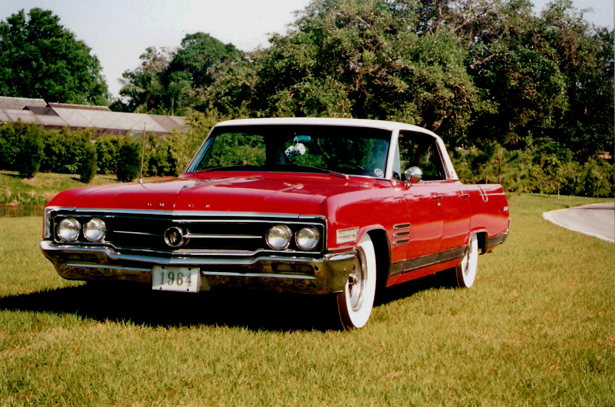 Buick Wildcat, "Super Wildcat" version, front view